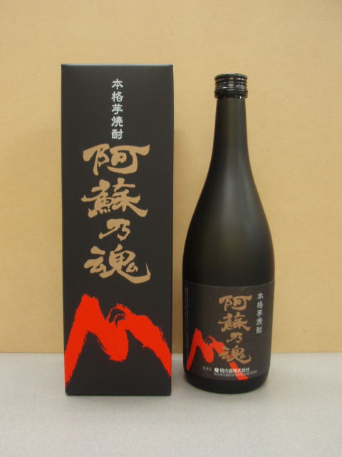 "Aso_no_Tamashii" (Potato shōchū, imojōchū, distilled beverage,) Collaboration with Tokai University,FUSANOTSUYU Inc. and National Agricultural Research Center for Kyushu Okinawa Region